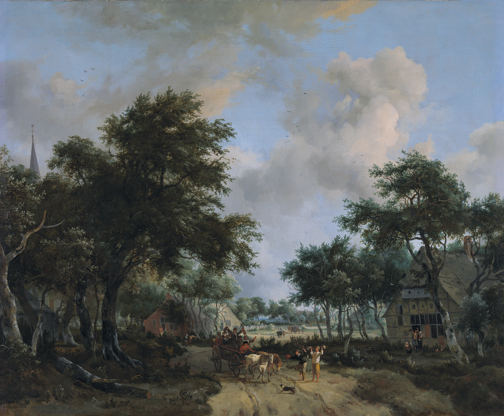 Forest landscape with a merry company in a cart oil on canvas 90.5 x 109.8 cm ca 1665